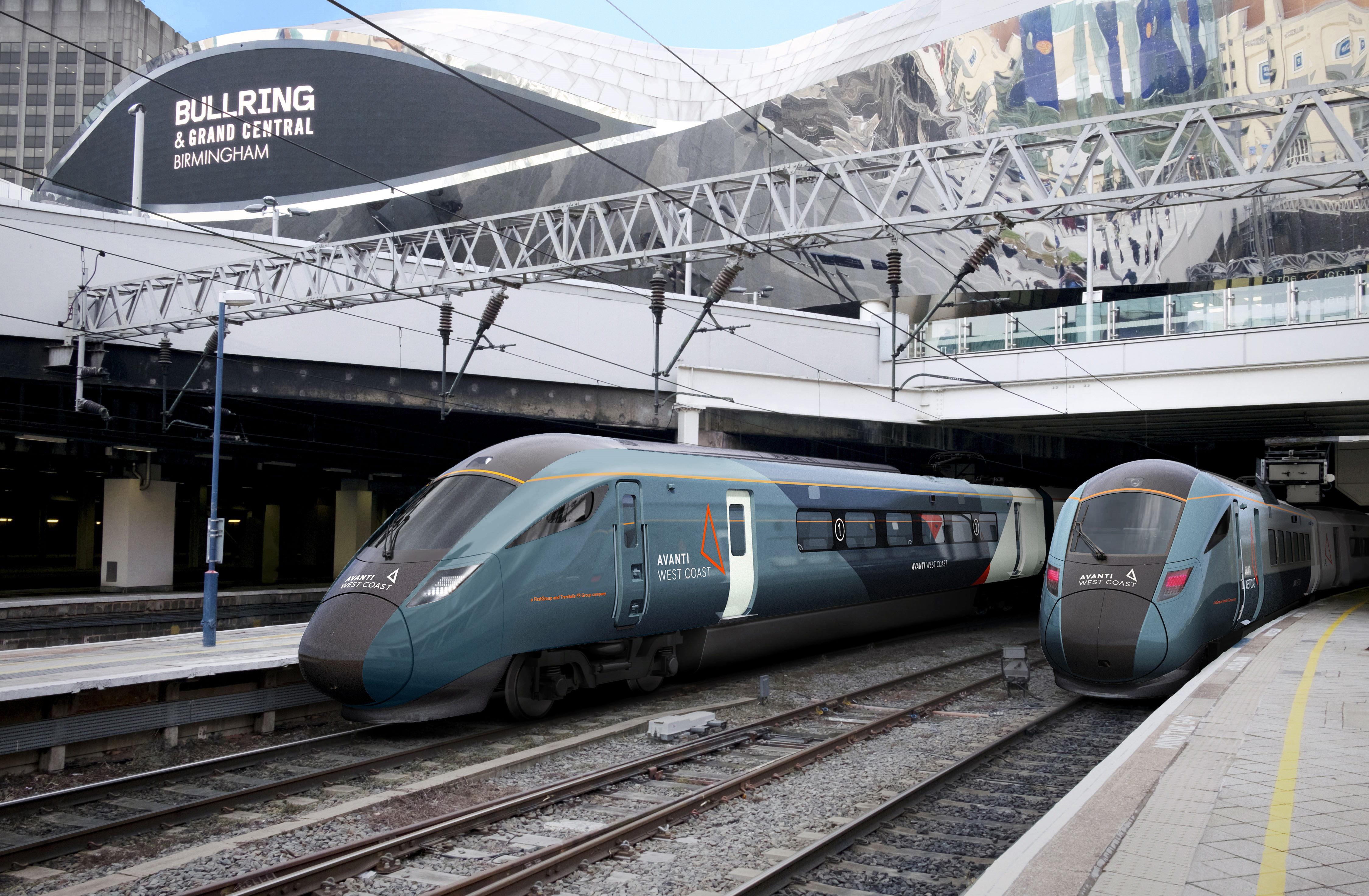 Avanti West Coast Hitachi train order press release image